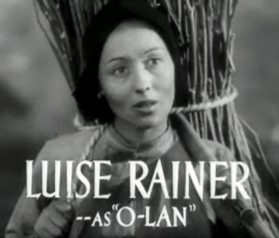 Cropped screenshot of Luise Rainer from the trailer for the film The Good Earth